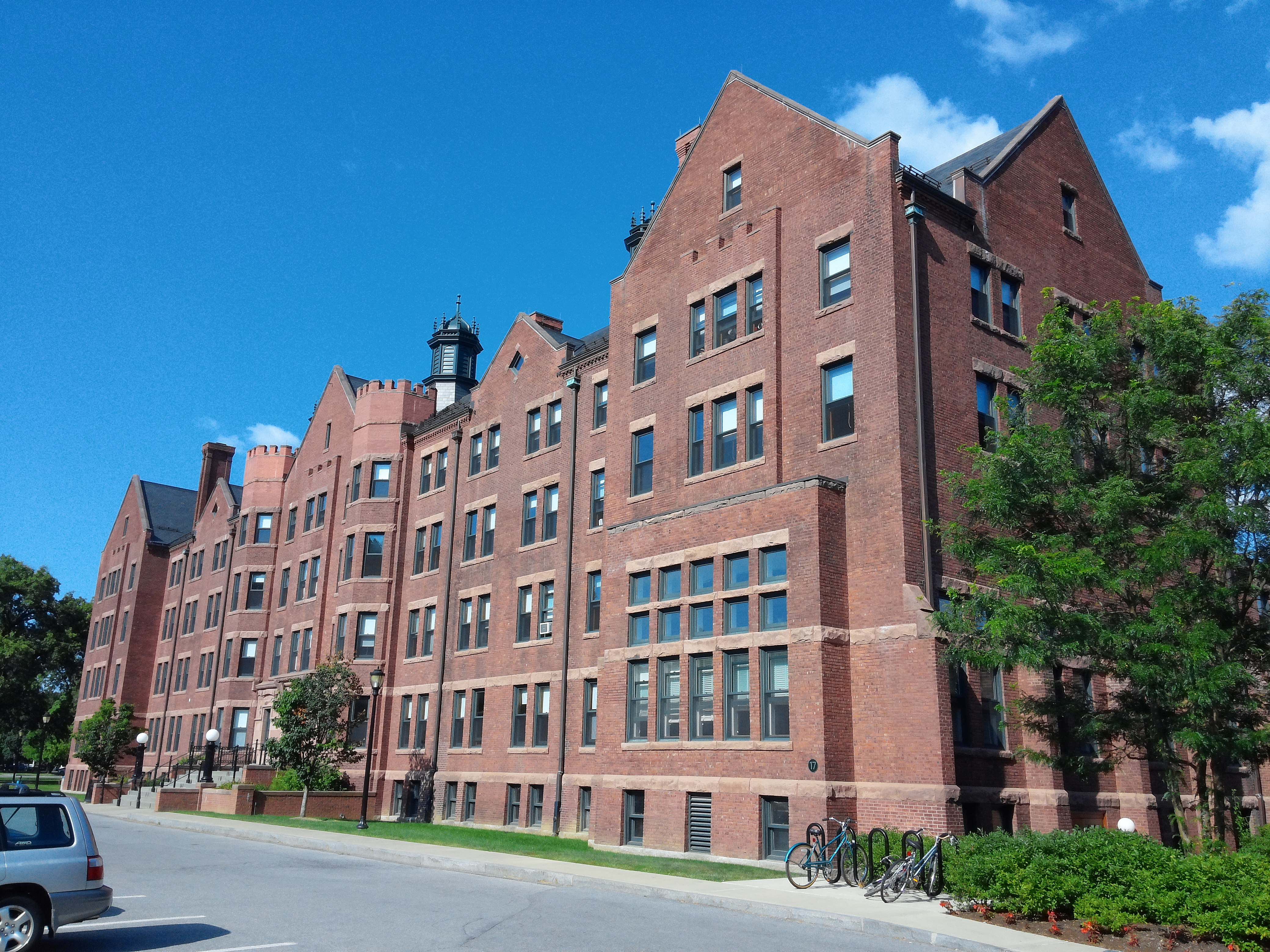 Davison House, one of the dormitories at Vassar College. Pictured from the non-quad side.